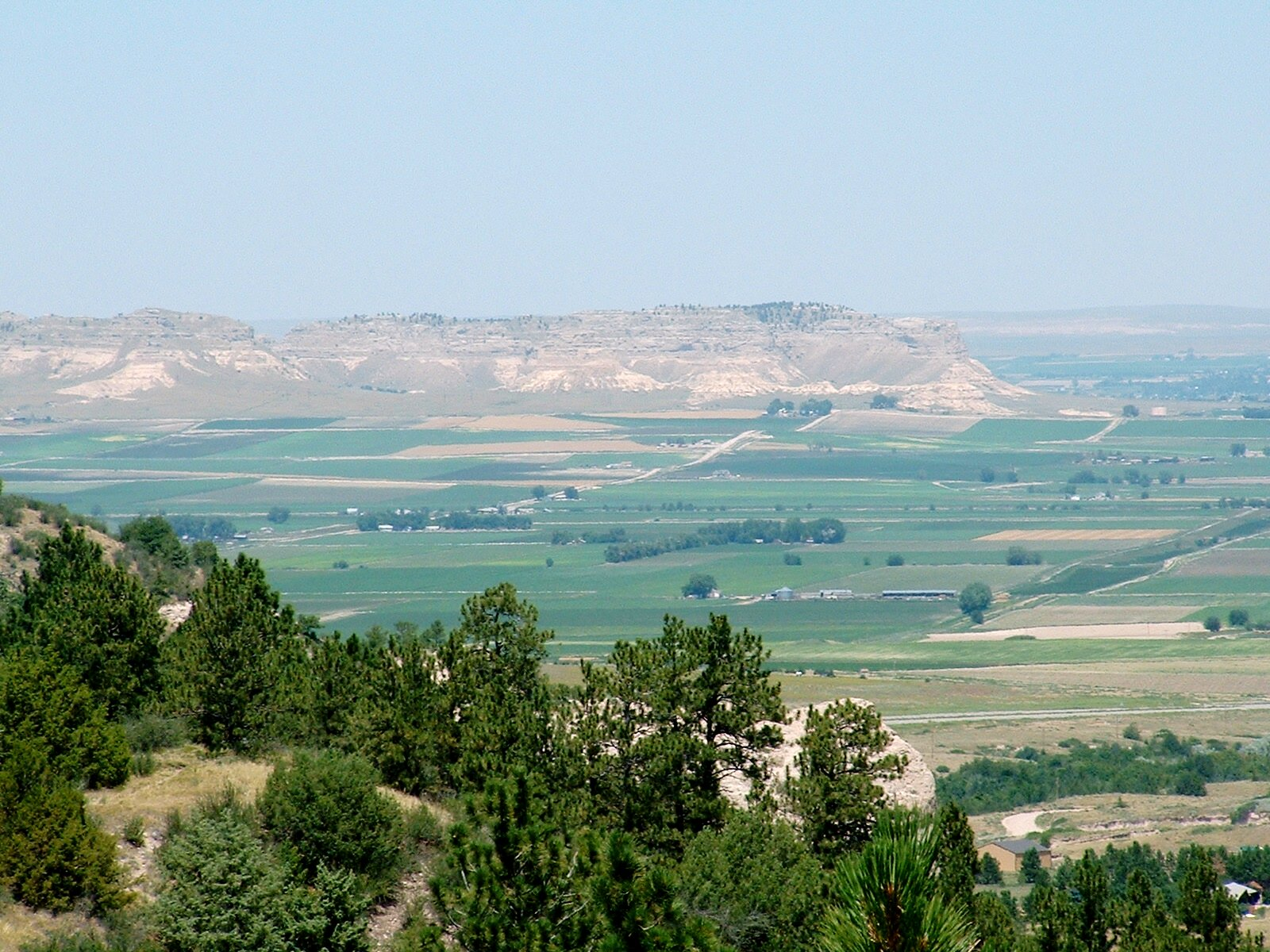 Looking north-northwest at Scottsbluff National Monument, Gering, Nebraska. This image was taken from Wildcat Hills.